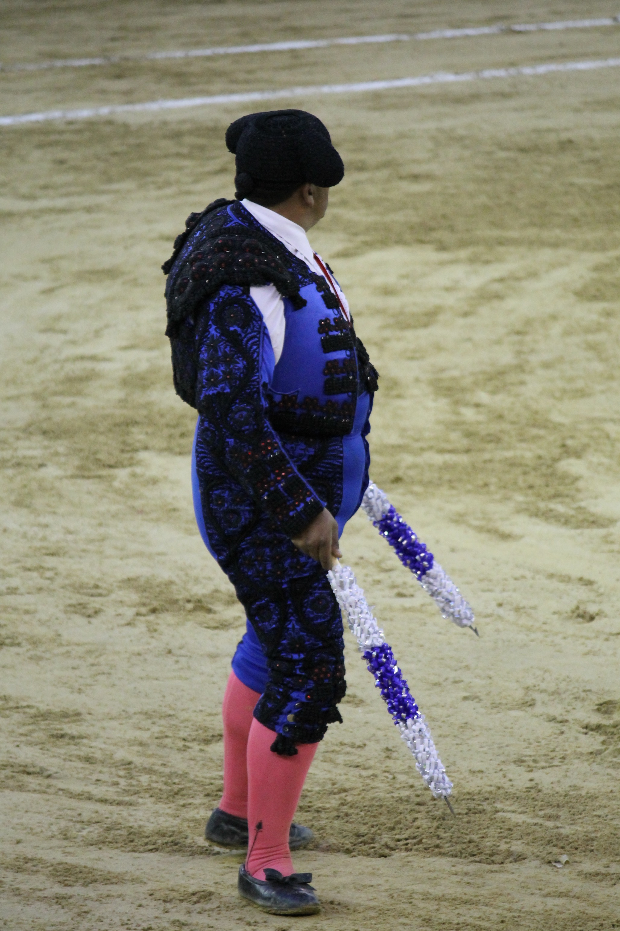 Banderillero en la plaza de toros la SantaMaría de Bogotá